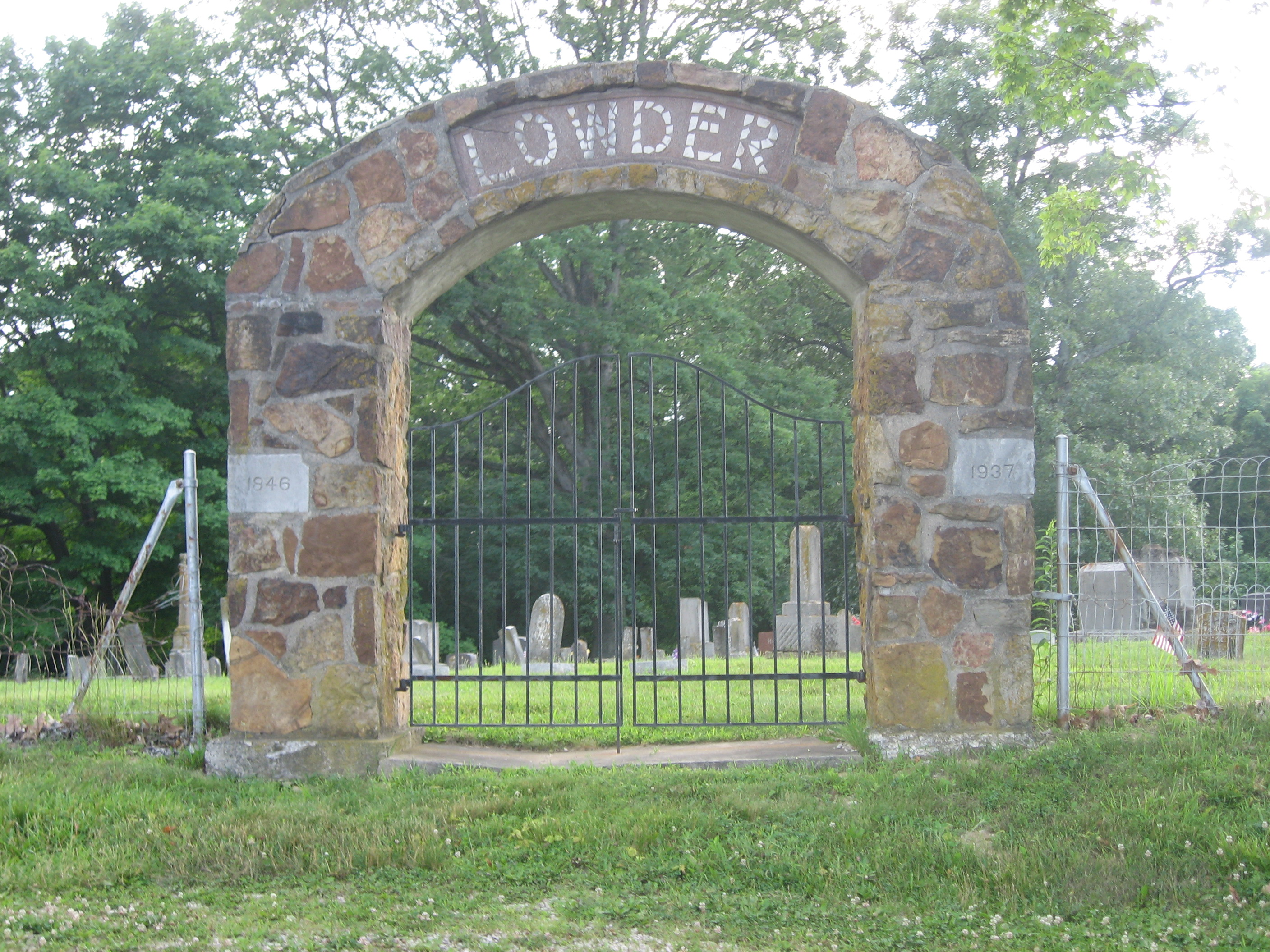 Gate at the northern entrance to the Lowder Cemetery, located along Popcorn Road northwest of Springville in Perry Township, Lawrence County, Indiana, United States.